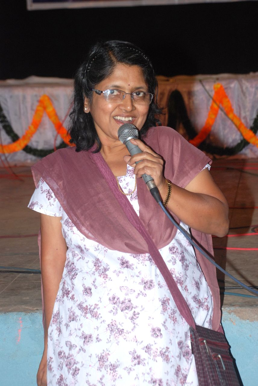 she is an active social worker as well as a well known singer in Kolhapur.